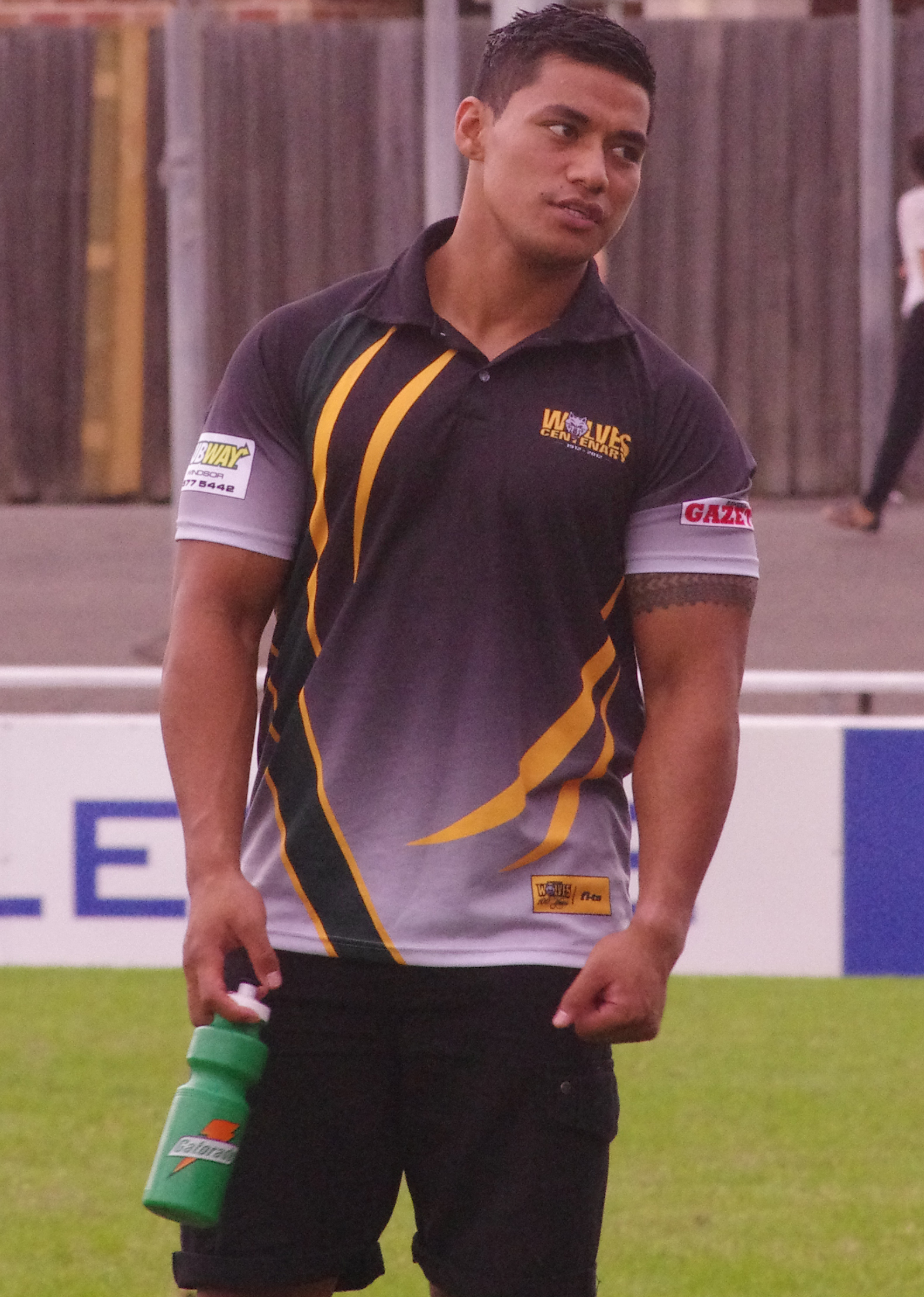 Junior Vaivai